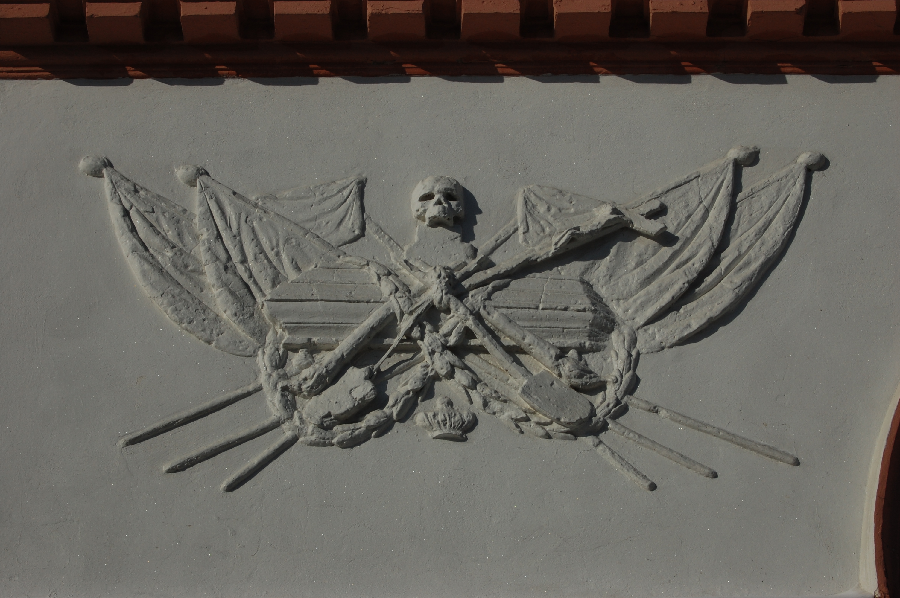 Gate. Calvary cemetery. Minsk, Belarus. Беларуская (тарашкевіца): Брама. Кальварыйскія могілкі. Менск, Беларусь.